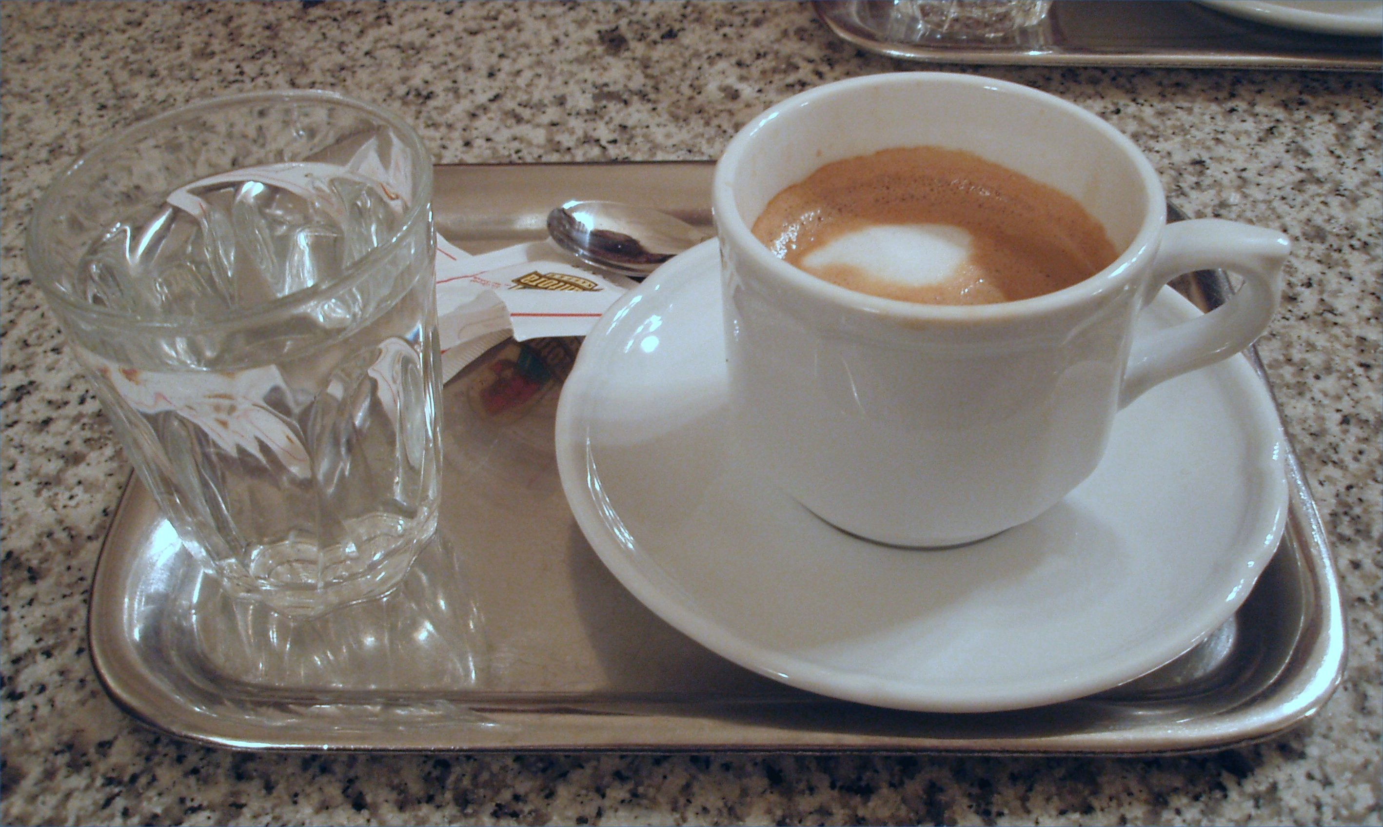 Melange (traditional Viennese coffee with hot foamed milk)